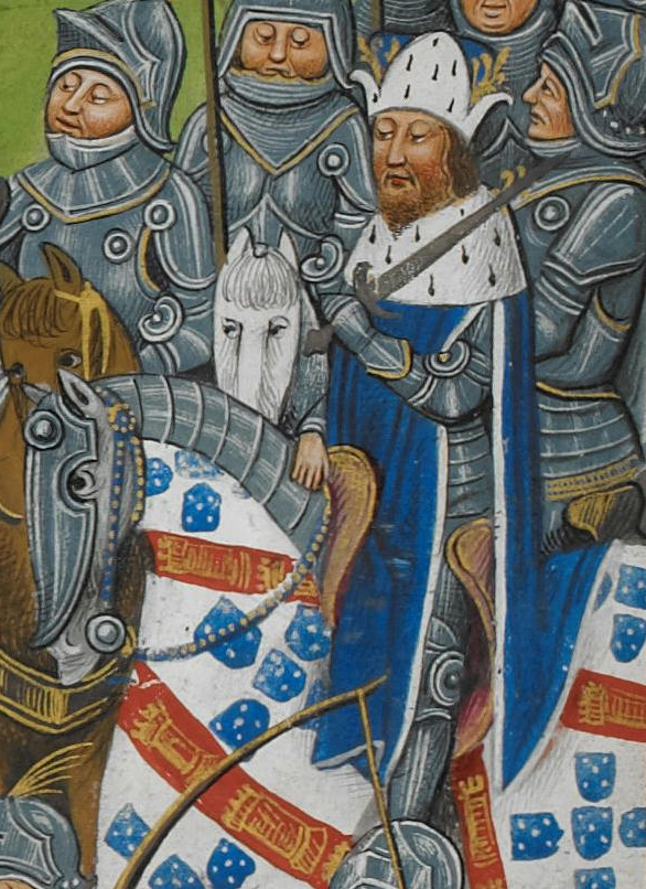 Portuguese and English armies defeating a French vanguard of the King of Castile. King Ferdinand I of Portugal (1345-1383) can be seen on horseback, on the far right; King John I of Castile (1358-1390) is on horseback as well, centre.